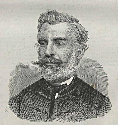 Portrait of Bálint Révész